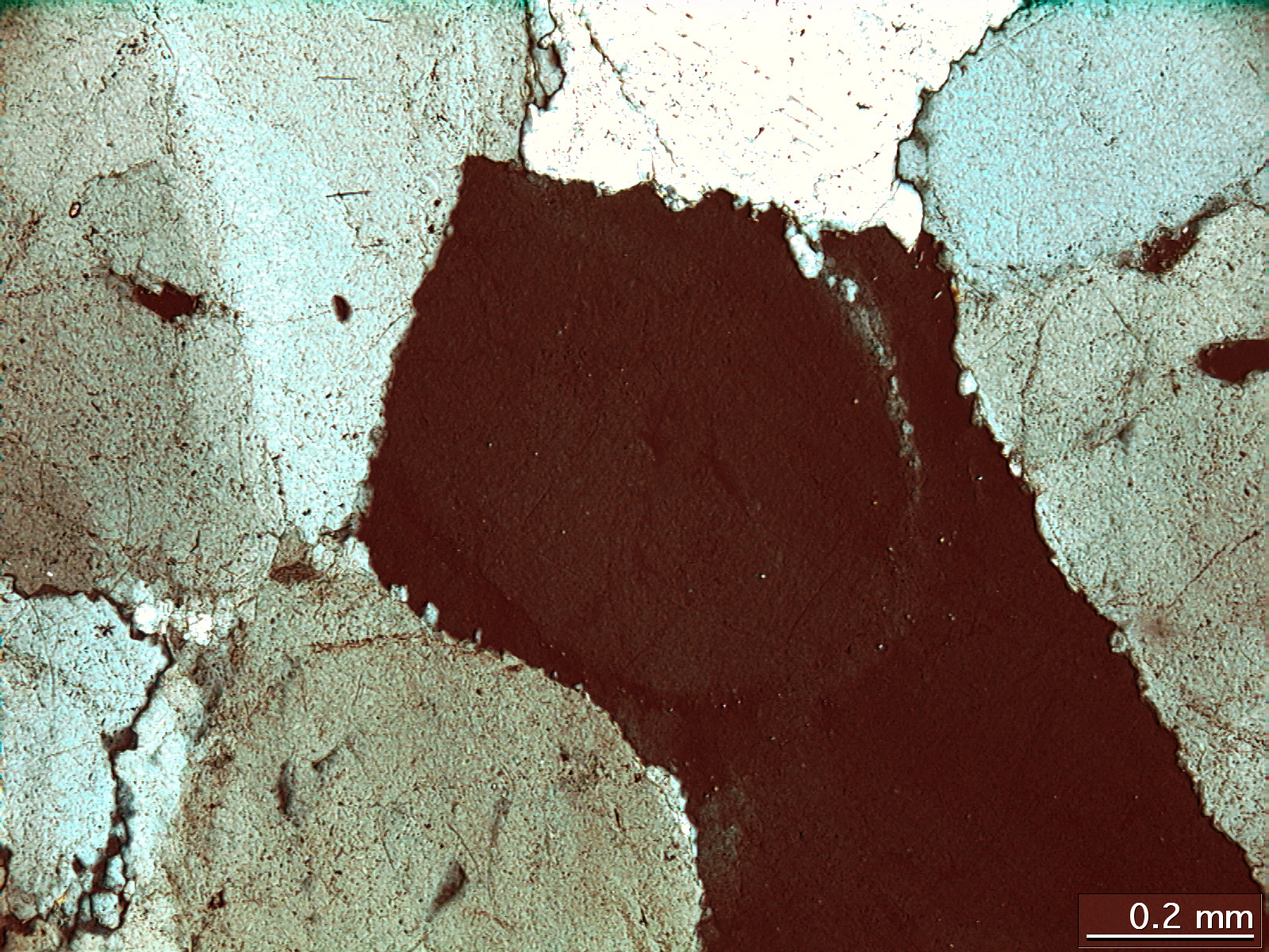 Thin section of the Weverton quartzite/sandstone (Cambrian of Maryland, USA), cross polarized light. All crystals are of the mineral quartz. The original rounded shape of the detrital grains is preserved in fluid inclusion patterns. A homoaxial cement of quartz grew into the pores untill the whol rock was cemented.